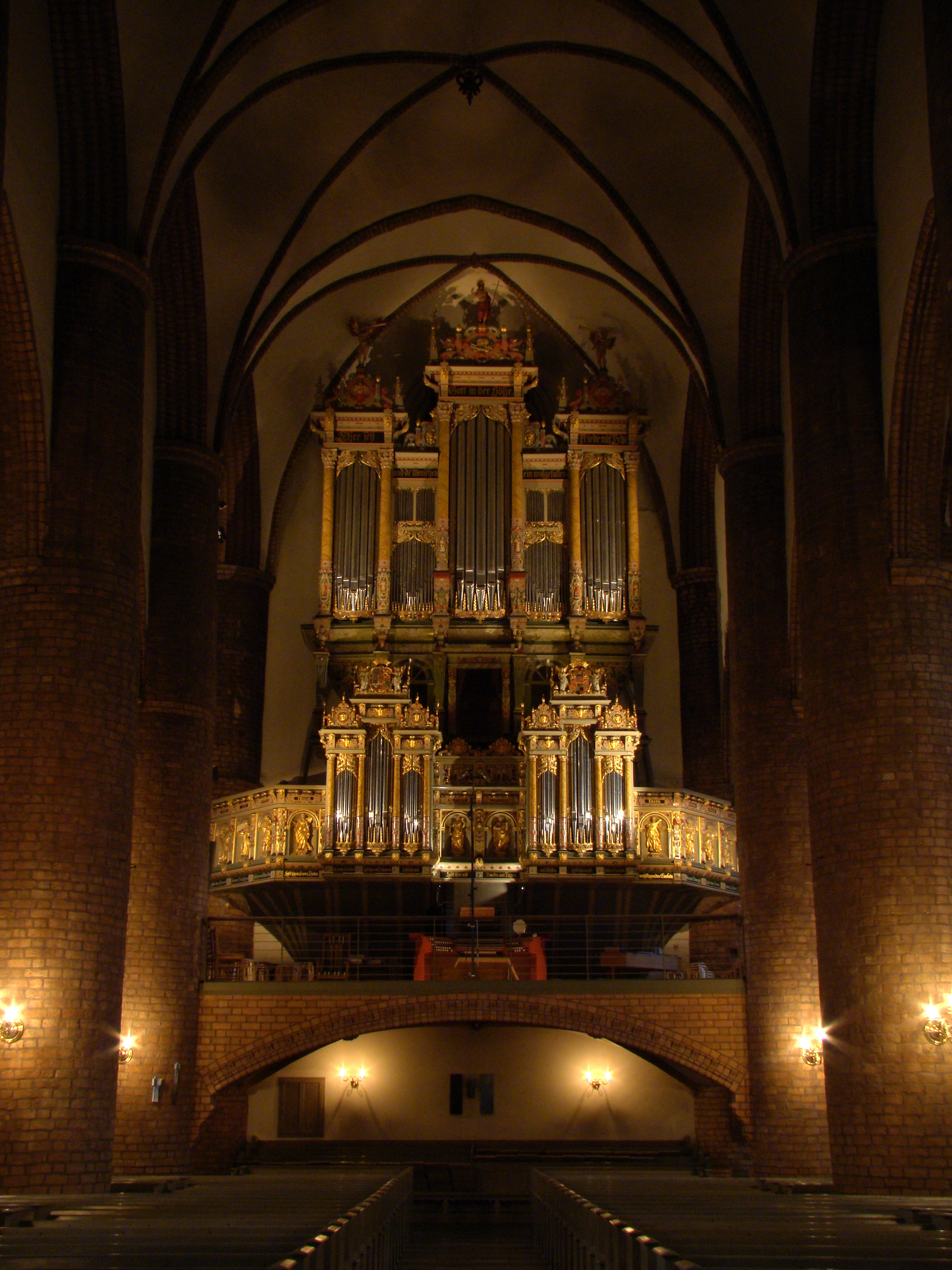 Flensburg, Nikolaikirche (St. Nicholas Curch), backward view through the nave to the organ